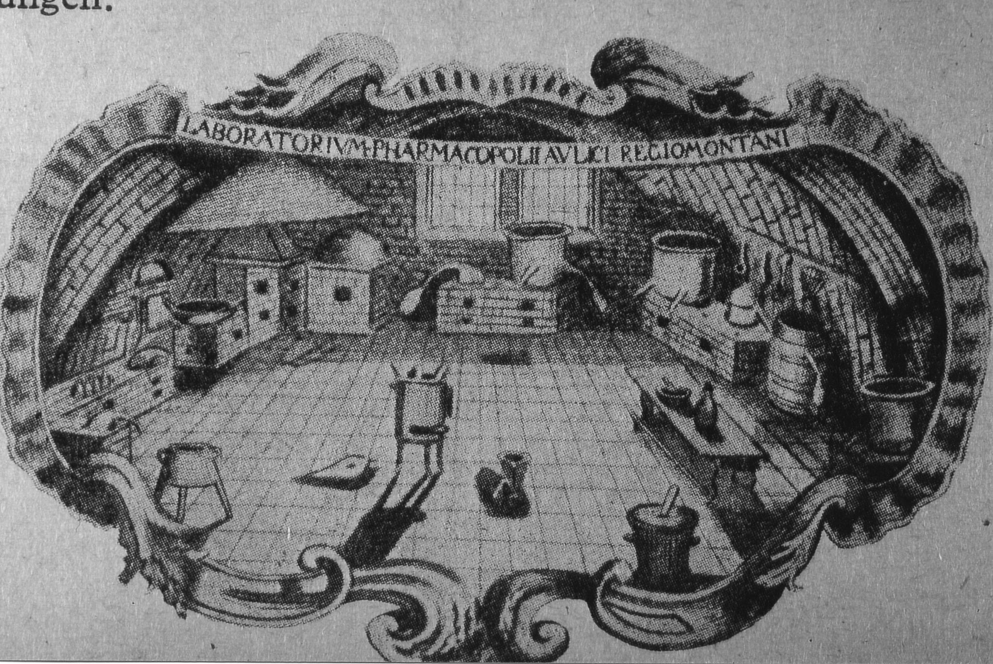 First universical chemical laboratory at Koenigsberg, Prussia-Germany 1775 "Hofapotheke" of Karl Gottfried Hagen (todays Kaliningrad-Russia)